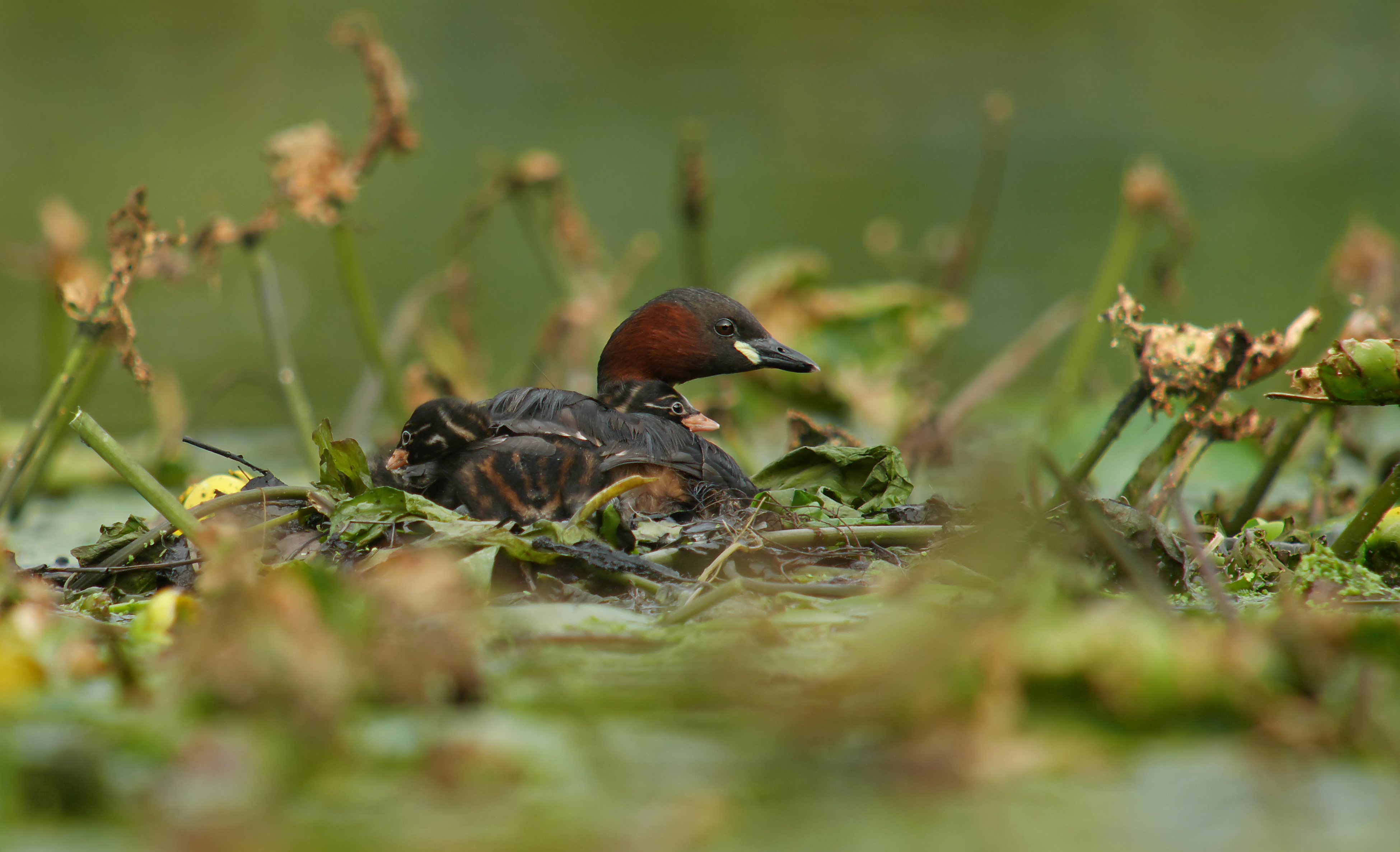 Digiscoping with Swarovski ATM 80 HD 30 X, Panasonic GX7 + Lumix G 20mm F1.7 ASPH lens (Adapter DCB)